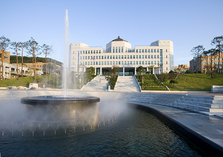 Fountain front main building of Dankook university(jukjeon)